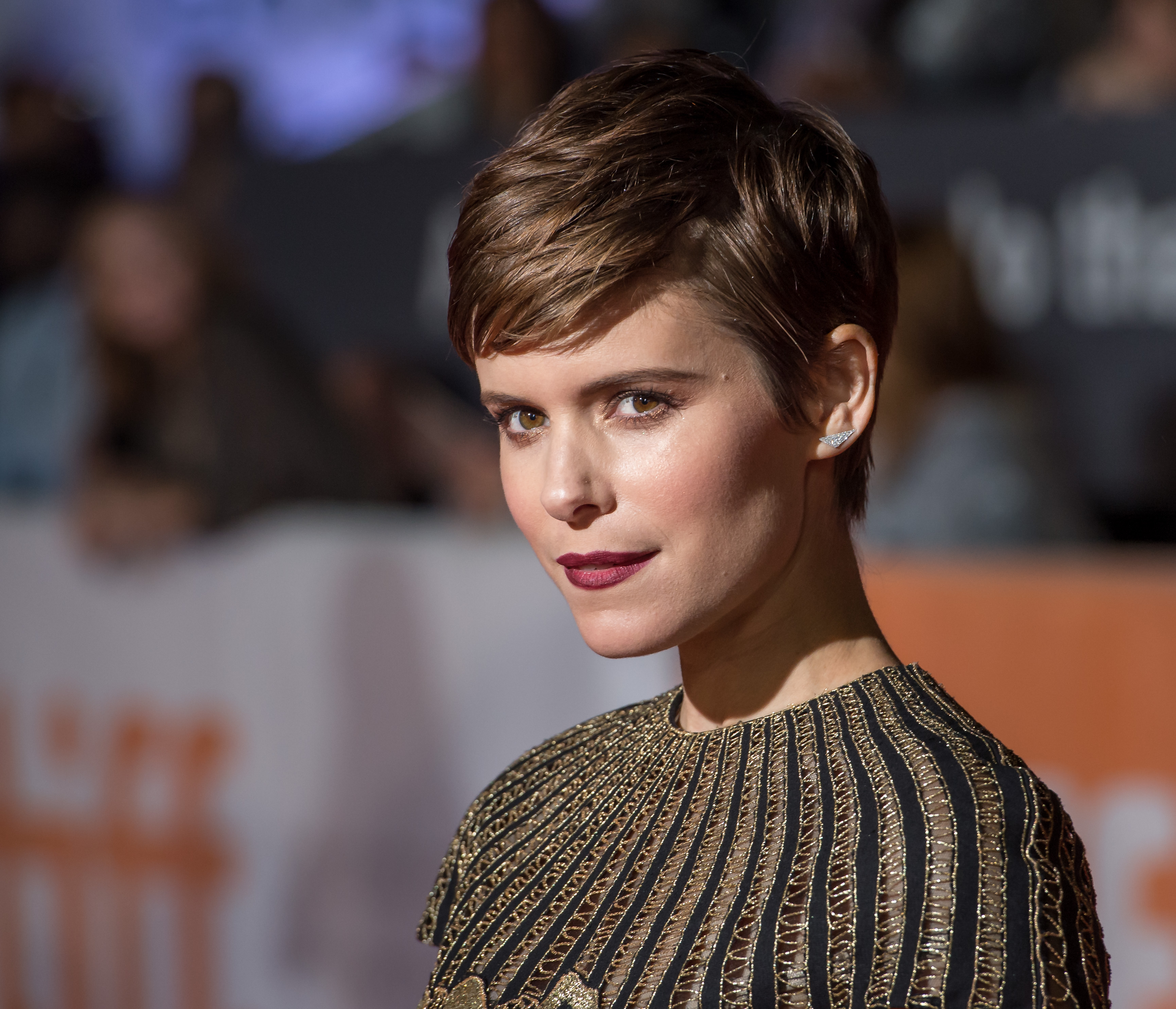 Actress Kate Mara attends the world premiere for "The Martian” on day two of the Toronto International Film Festival at the Roy Thomson Hall, Friday, Sept. 11, 2015 in Toronto. NASA scientists and engineers served as technical consultants on the film. The movie portrays a realistic view of the climate and topography of Mars, based on NASA data, and some of the challenges NASA faces as we prepare for human exploration of the Red Planet in the 2030s.